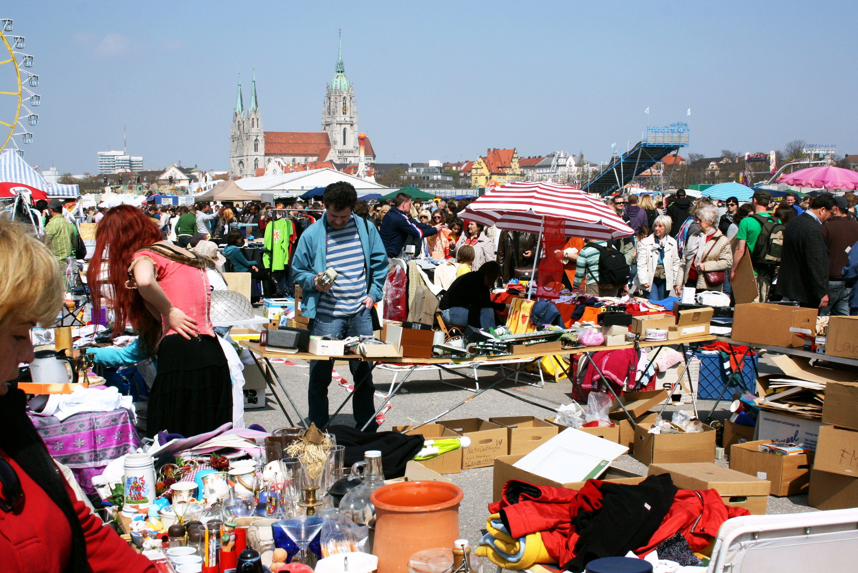 Flea Market at the Theresienwiese in Munich for the start of the Spring Festival. In the background St. Paul Church.